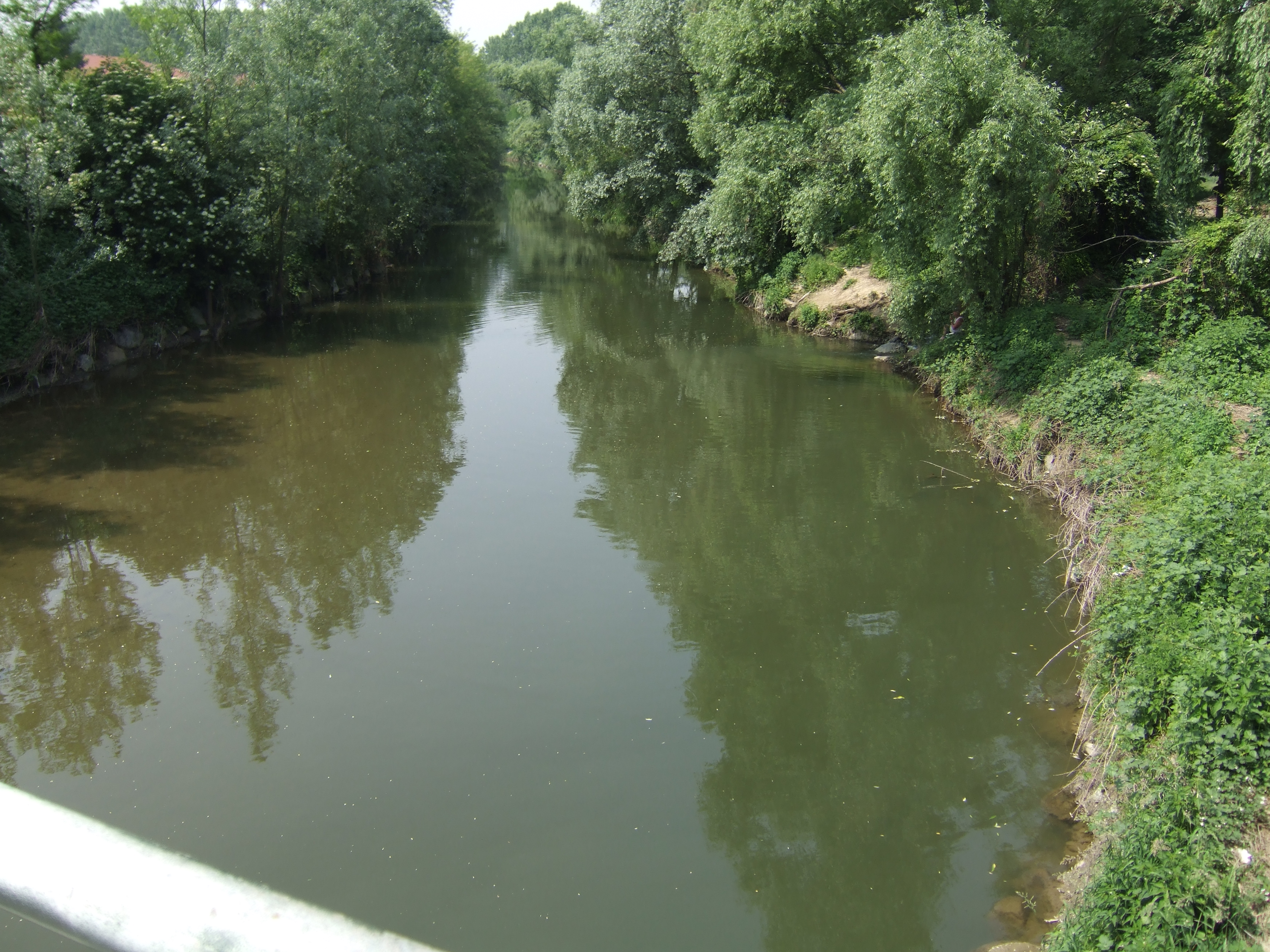 River Chisola at Volvera (IT)